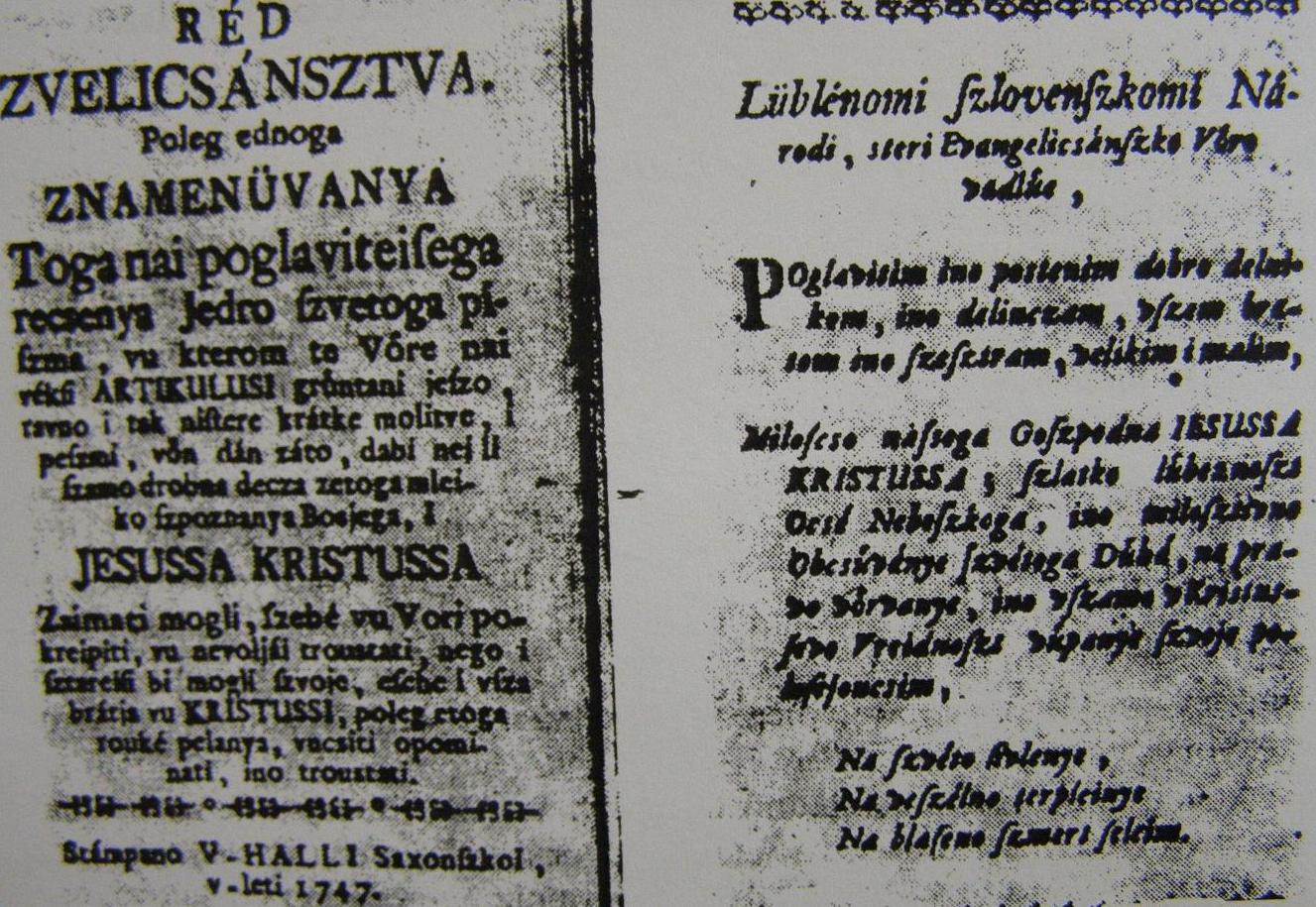 Réd zvelicsánsztva, book of Mihály Szever Vanecsai in 1742 in prekmurian language (prekmurščina)